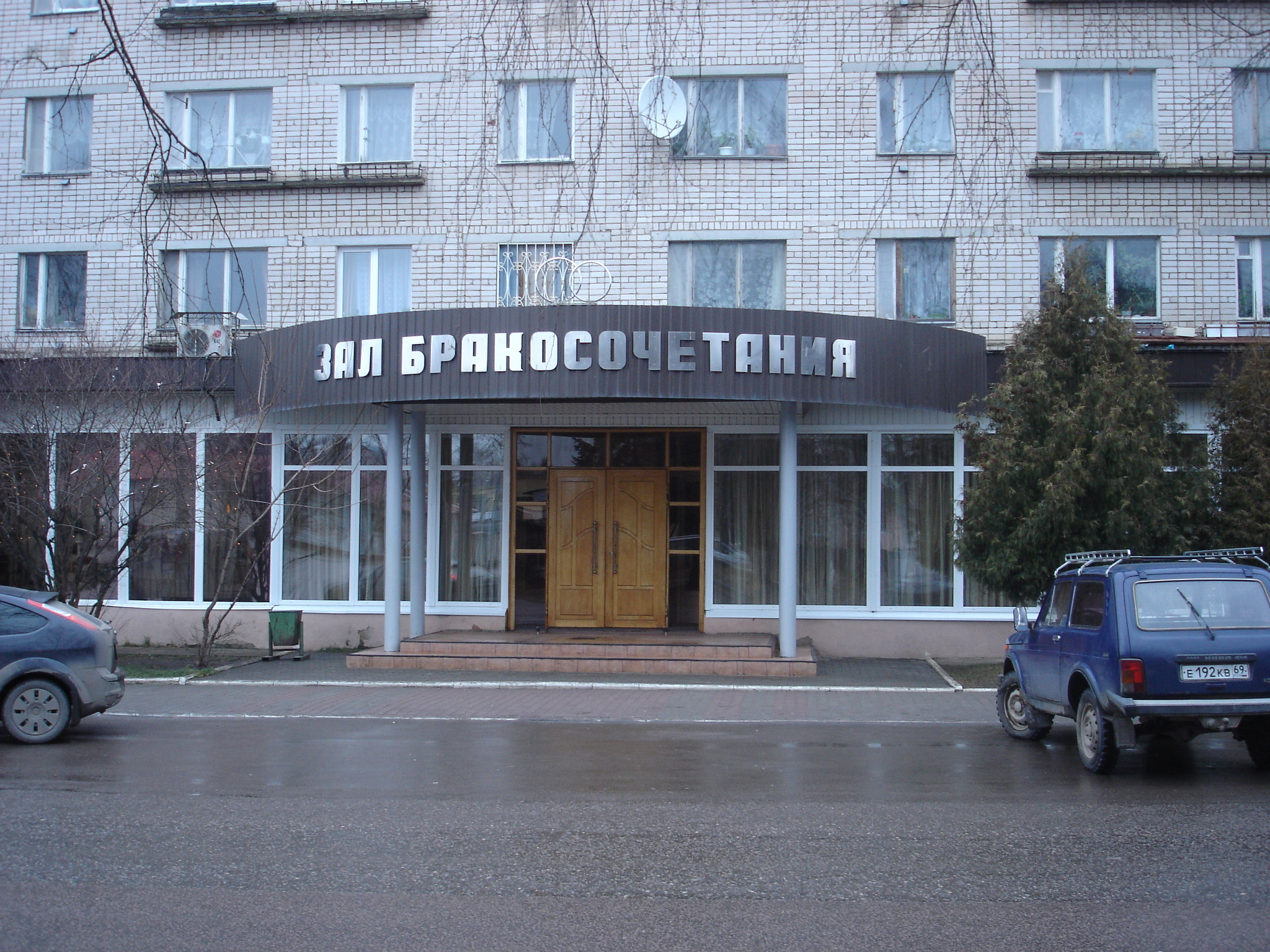 Konakovo wedding hall. Tver region, Russia.